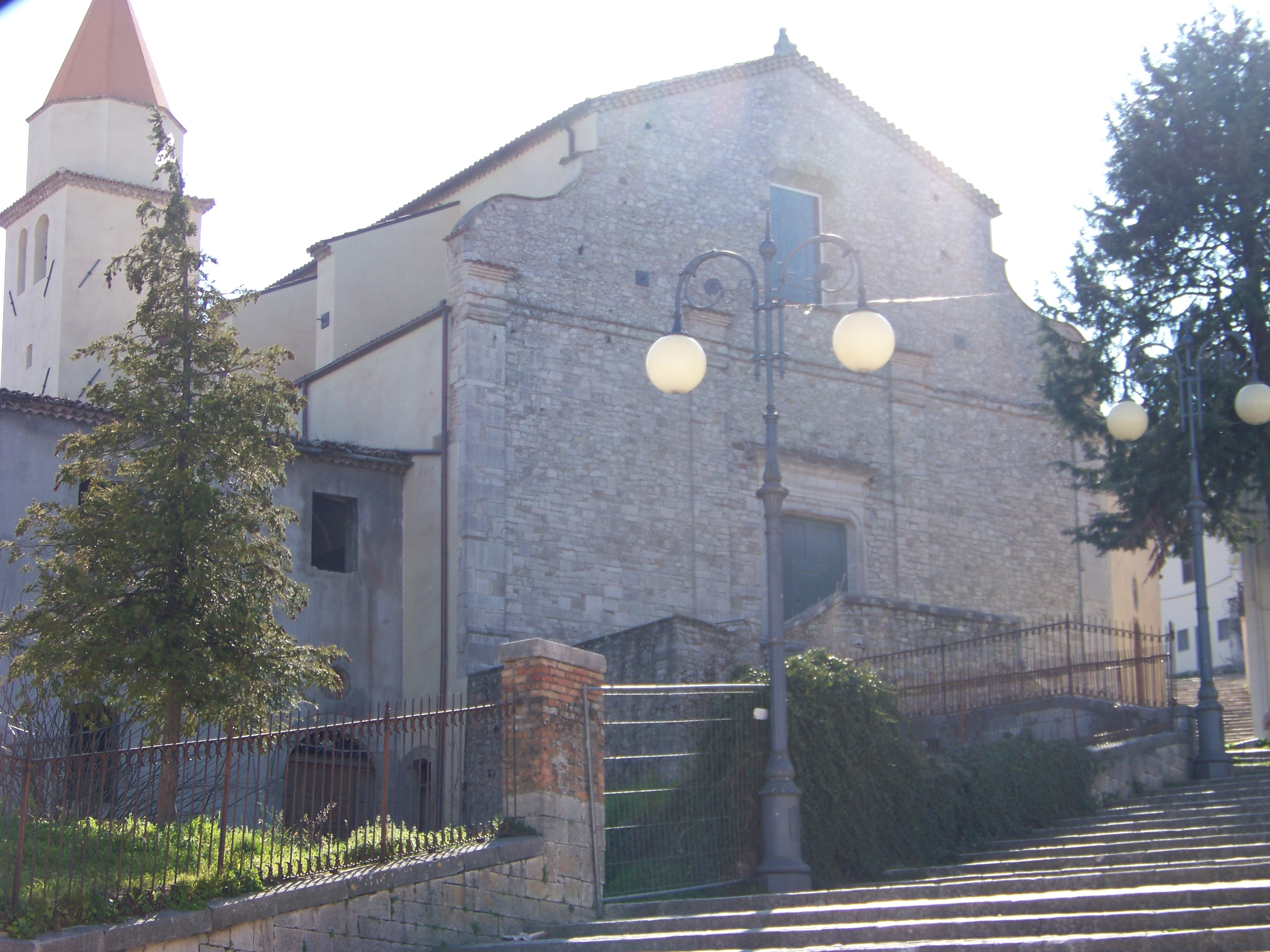 Church in Colletorto,Molise,Italy